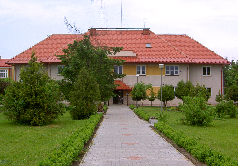 Turobin, Poland • Urząd Gminy / Commune Council